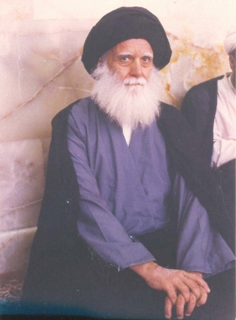 Shaheed Syed Muhammad al-Sadr